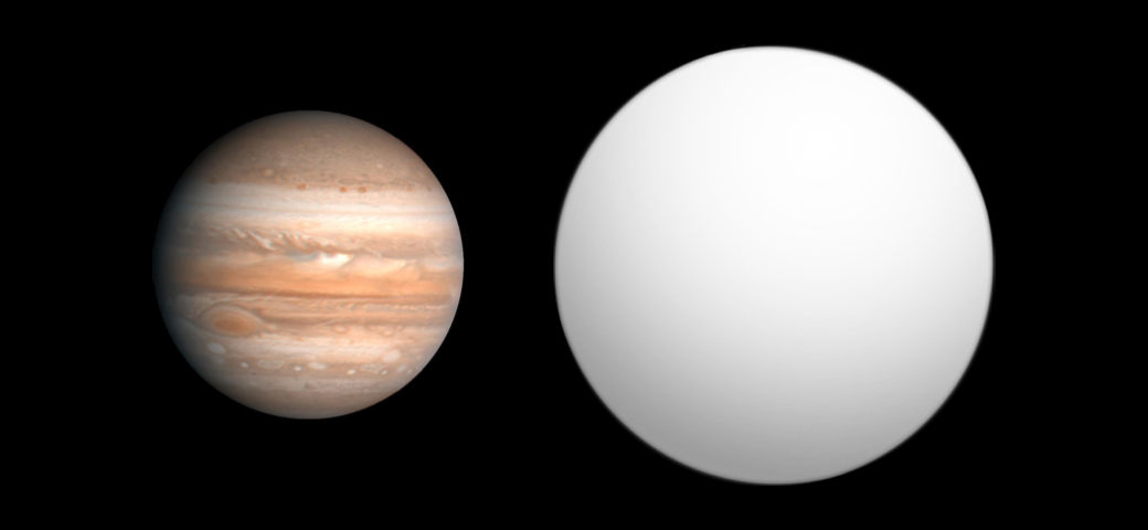 Comparison of best-fit size of the exoplanet WASP-4 b with the Solar System planet Jupiter, as reported in the Extrasolar Planets Encyclopaedia[1] as of 2010-10-03. ↑ Extrasolar Planets Encyclopaedia (2010-09-30). Retrieved on 2010-10-03.